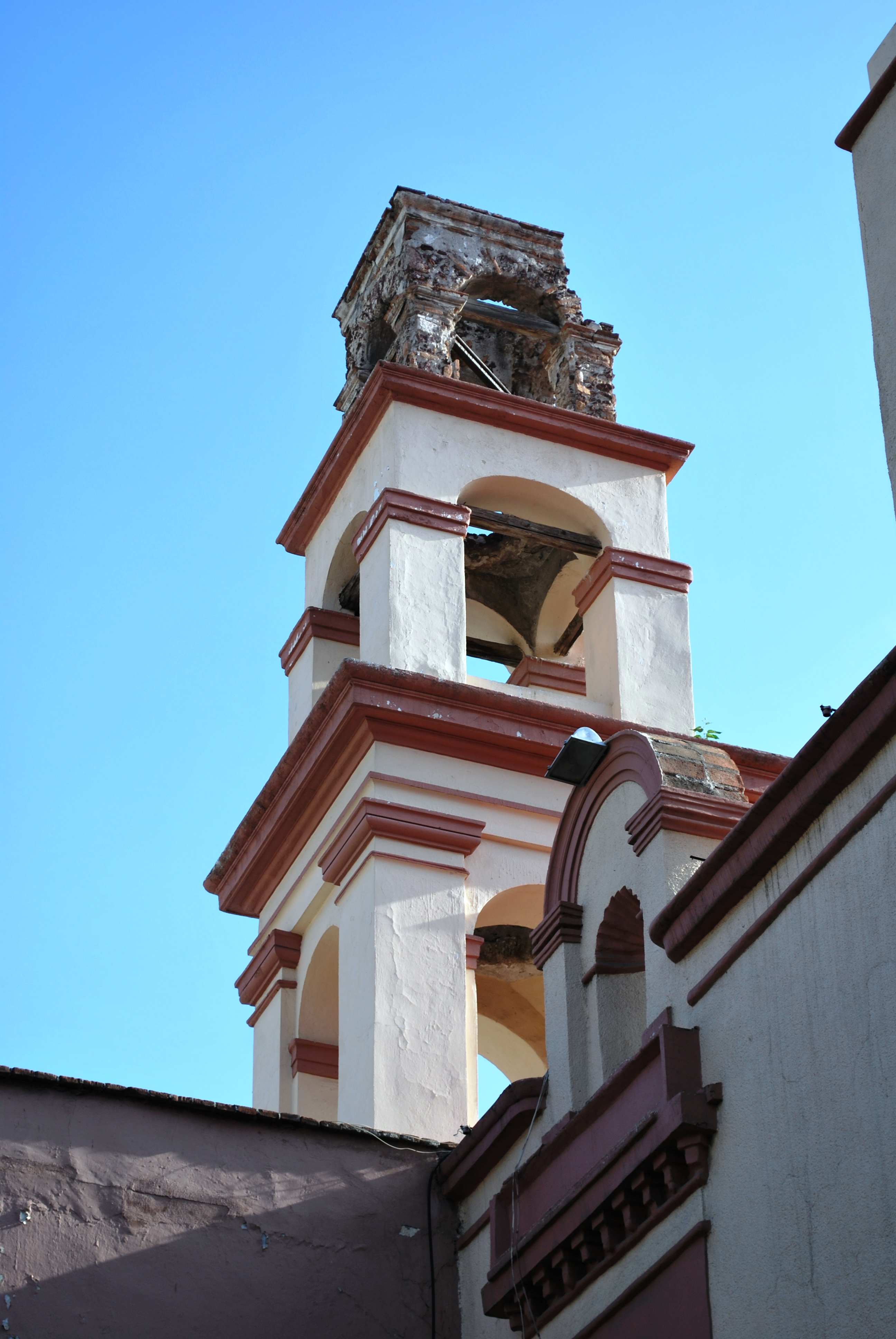 Bell tower of the La Asuncion Church in Pachuca, only partially resurfaced.